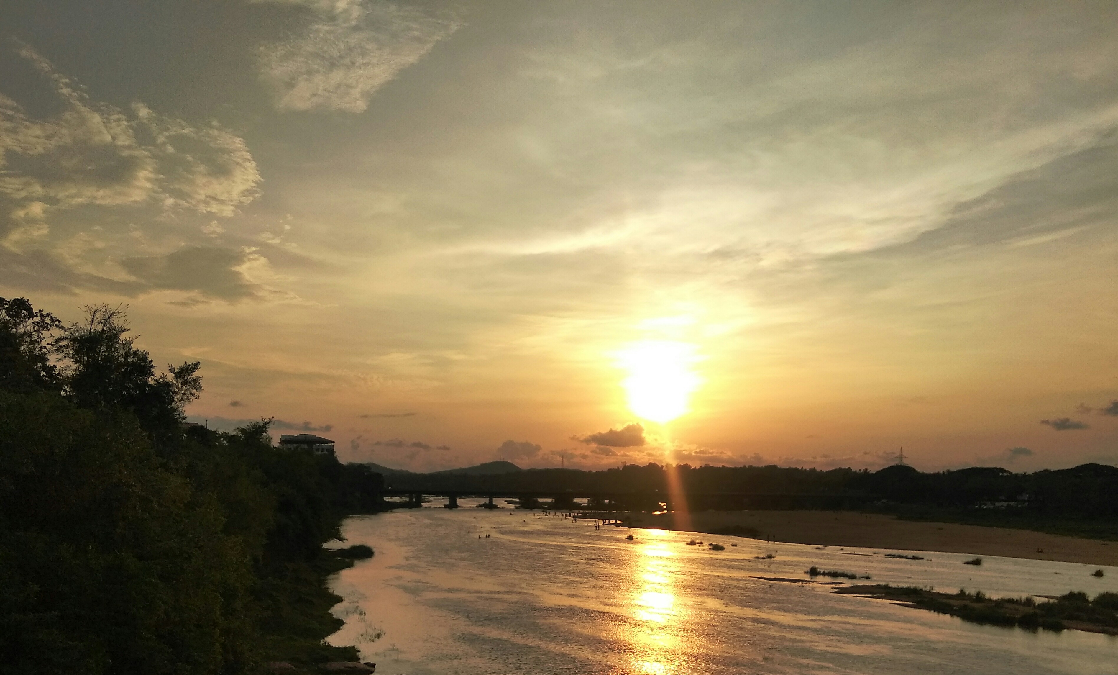 Evening View of Bharathappuzha from Railway Line